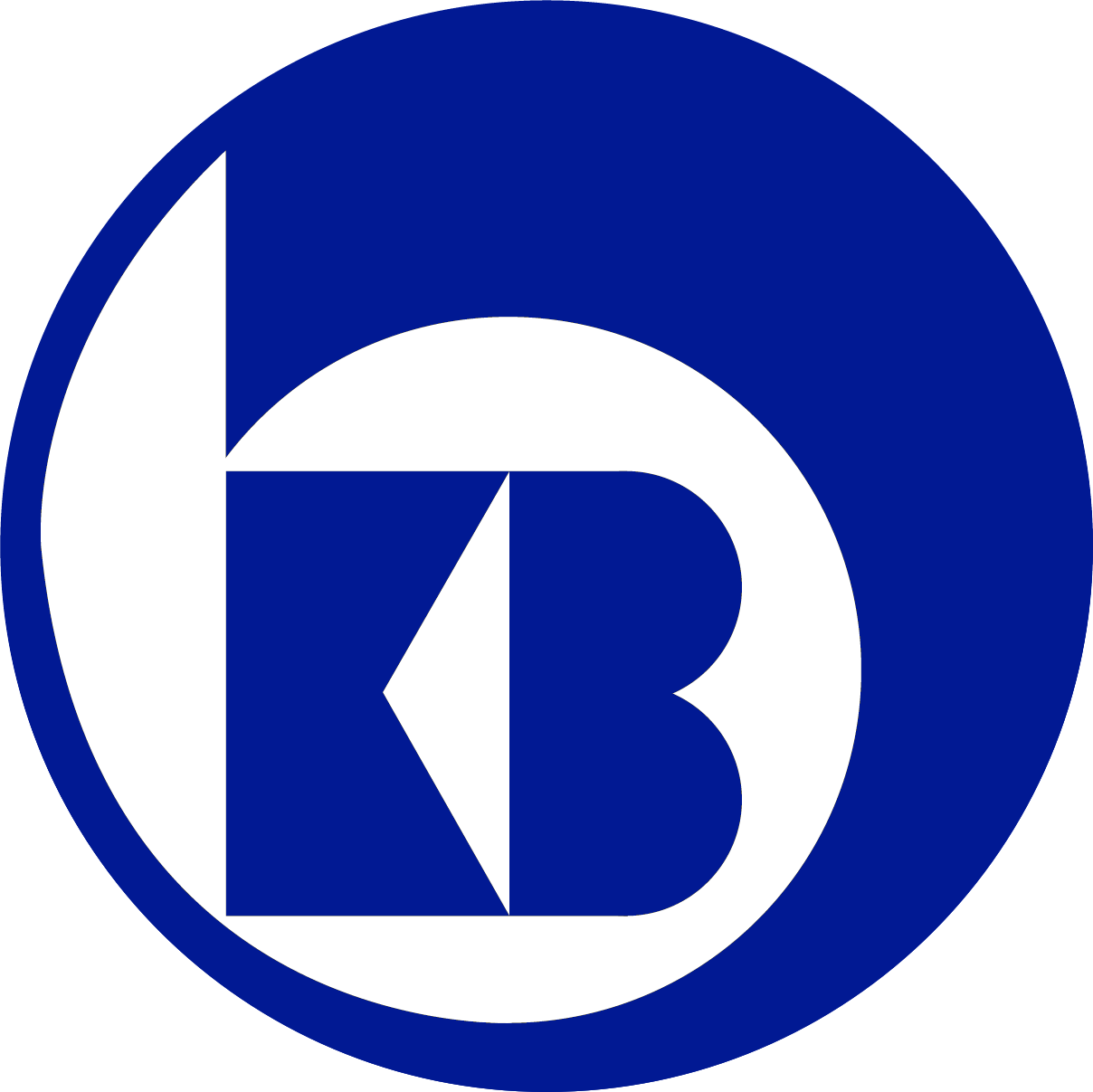 Logo of the Kulturbund der DDR.